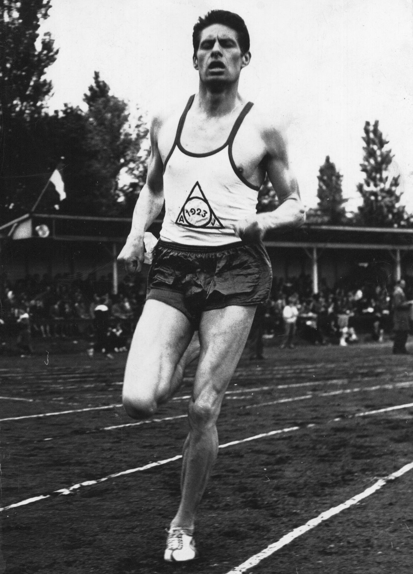 Dutch middle distance runner Henk Heida